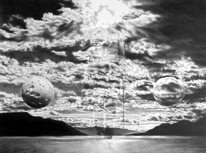 Jesrad, work realised with pencil in 2006.